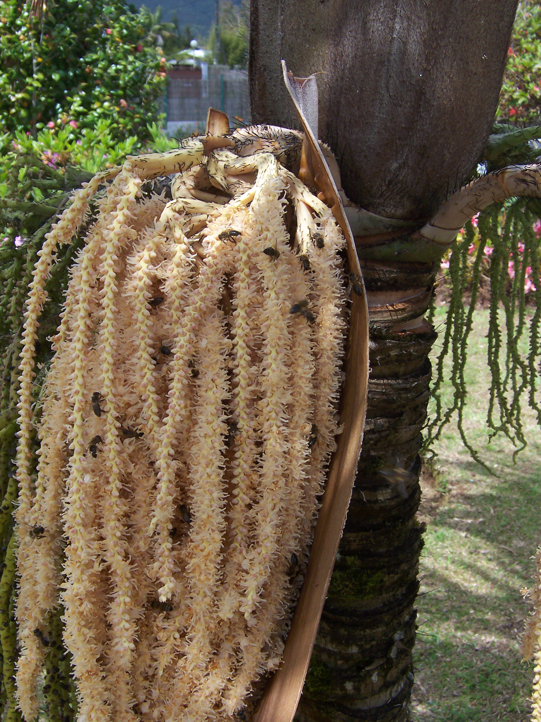 young barbel palm (Acanthophoenix rubra) : male flowers visited by honeybees (Plaine-des-Palmistes, Réunion island)